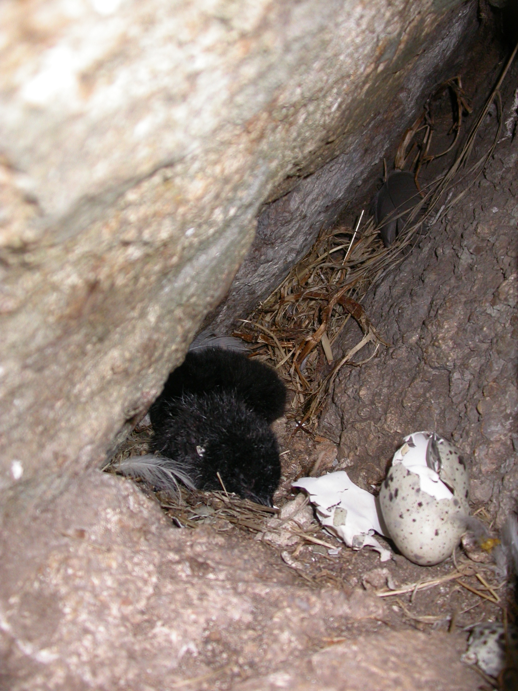 Two Pigeon Guillemot chicks, one just hatched, in a nesting crevice with eggs shell remains. Farallon Islands, California.